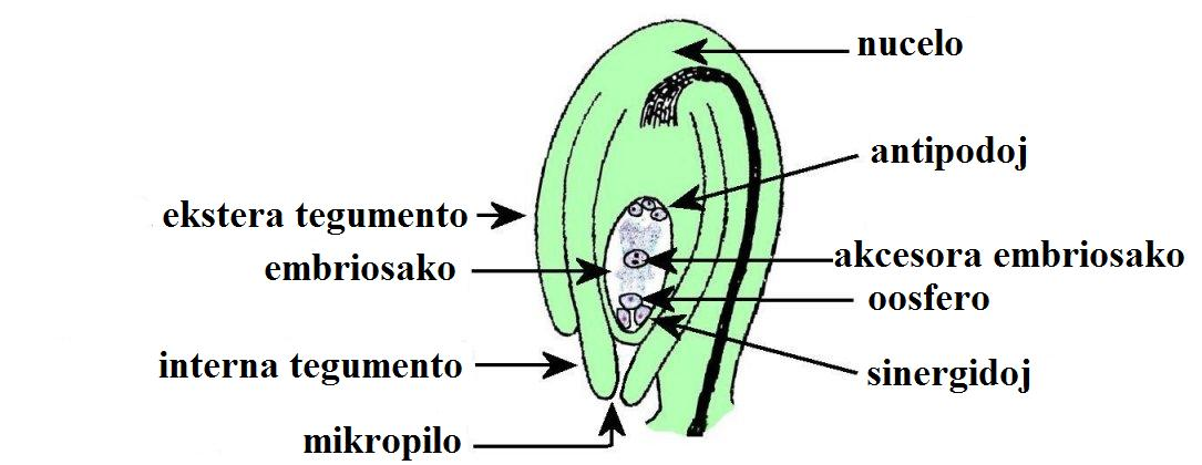 Traduction